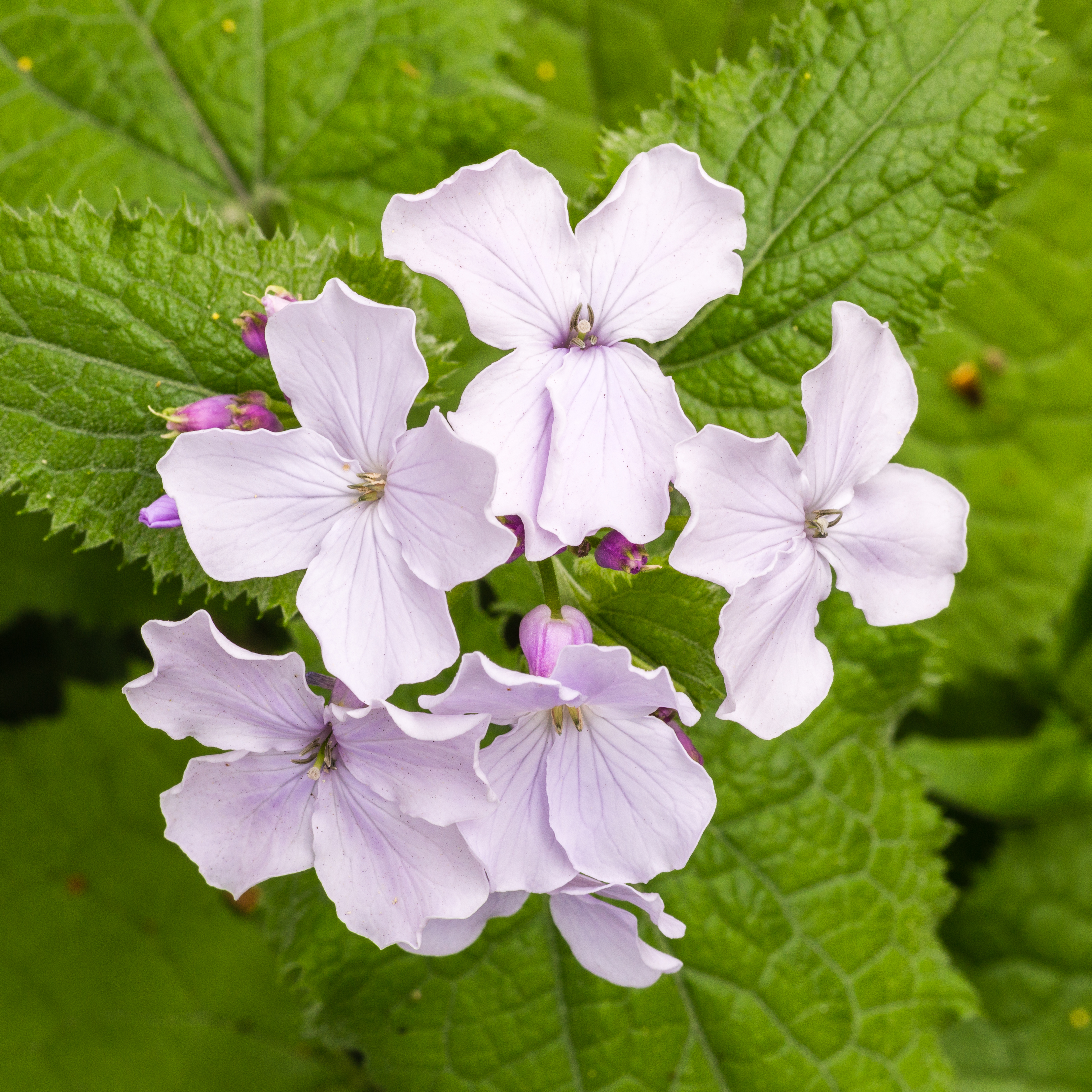 Pleasantly scented flowers of a Lunaria rediviva. Location. Garden sanctuary JonkerValley.